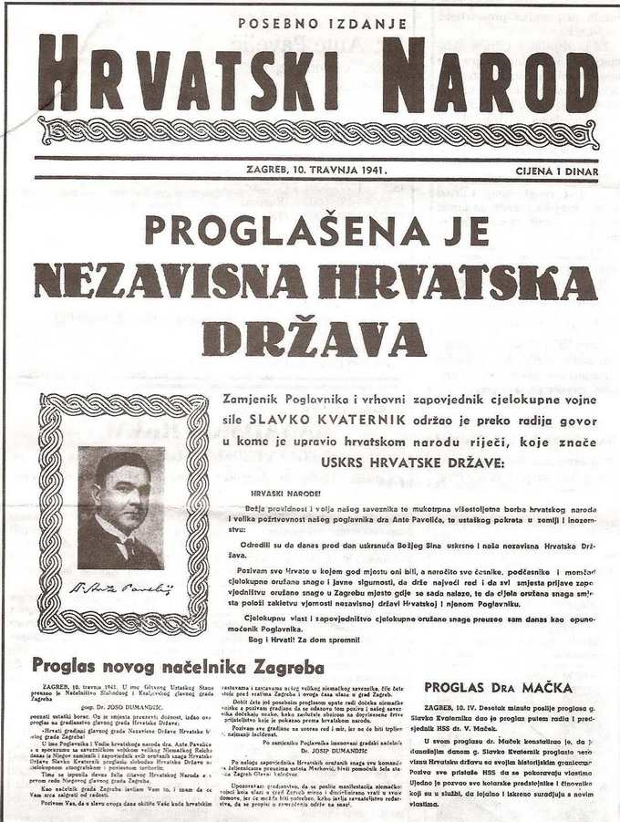 Cover of newspaper "Hrvatski narod", proclamation of Independent State of Croatia